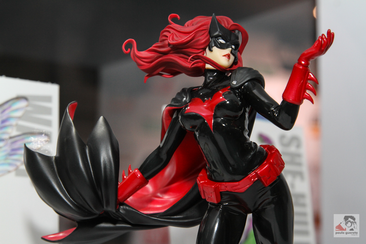 Comic Con Experience 2014